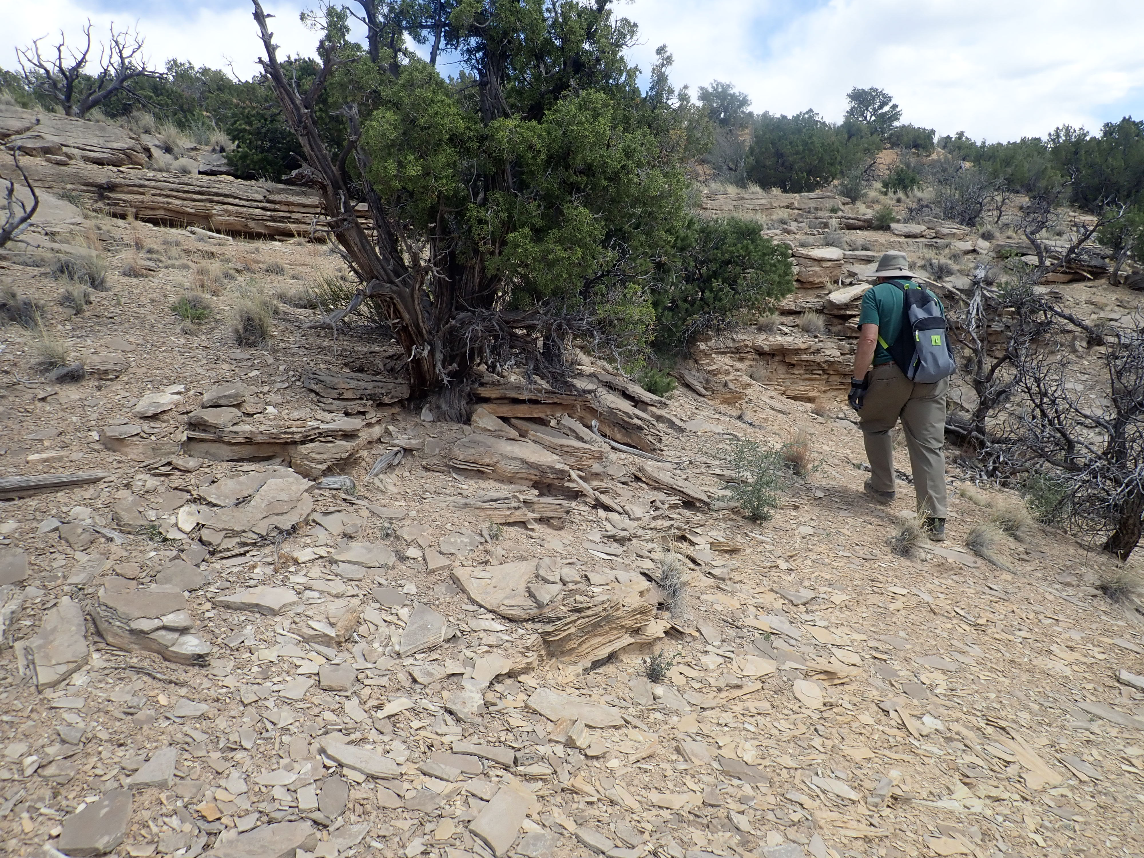 This shows limestone beds of the Luciano Mesa Member of the Todilto Formation near Arroyo del Cobre, west of Abiquiu, New Mexico. The Todilto Formation is a Jurassic evaporite formation.